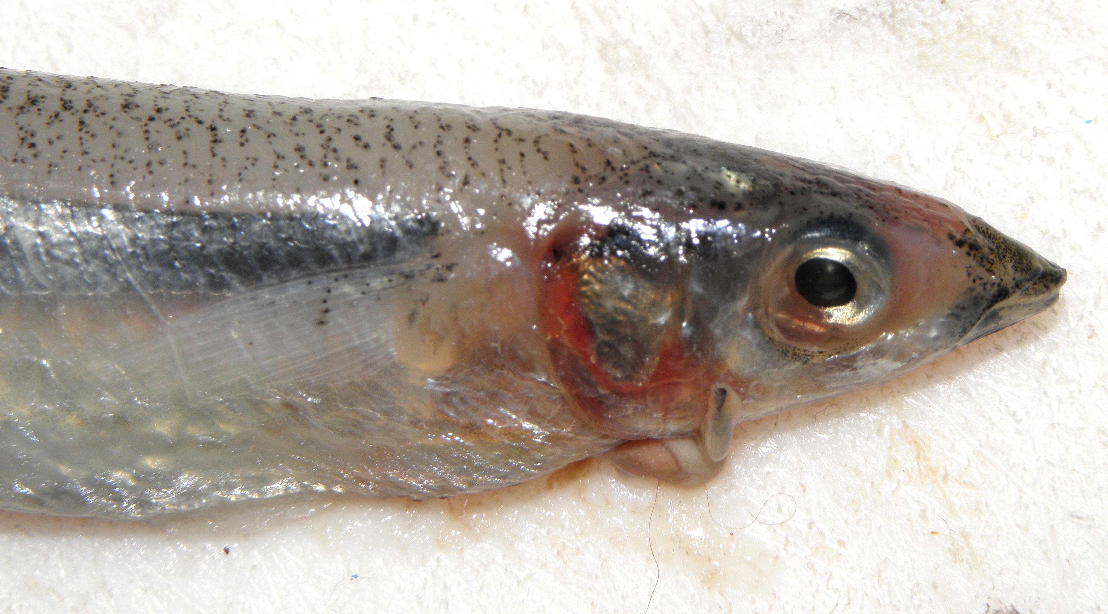 Head of silverside (Odontesthes incisa).